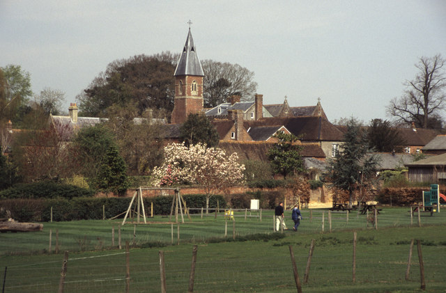 Stapehill Abbey This was latterly used as a farming and domestic bygones type of heritage centre and had acquired many exhibits from the former National Tractor Museum at Hunday. It closed at the end of the 2006 season and the contents were auctioned. It was a pleasant little collection and quite overlooked.